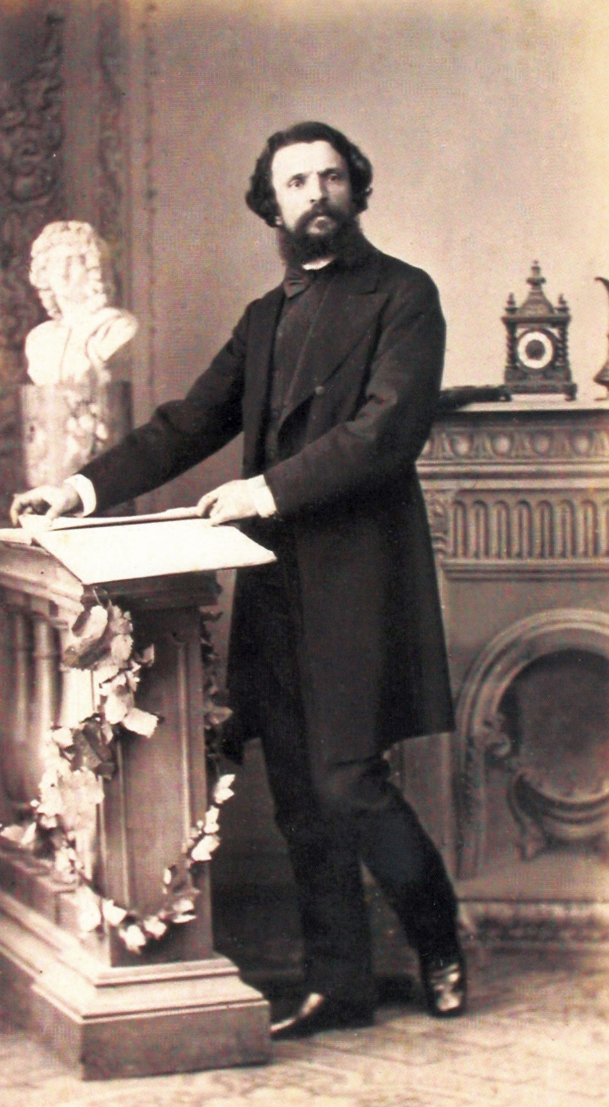 Theodor Aman